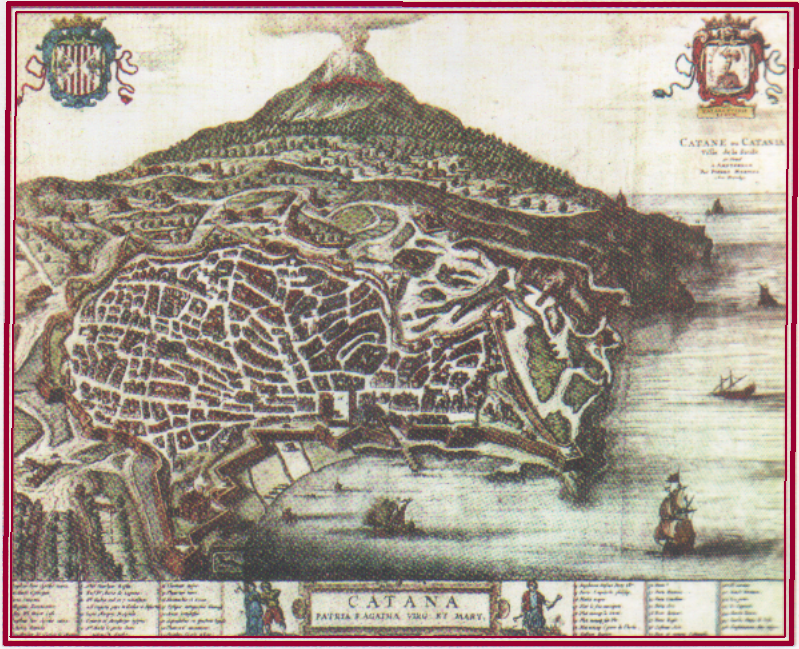 View of Catania in oldest map; P. Mortier,CATANE ou CATANIA - Ville de Sicile, Amsterdam, post 1575.